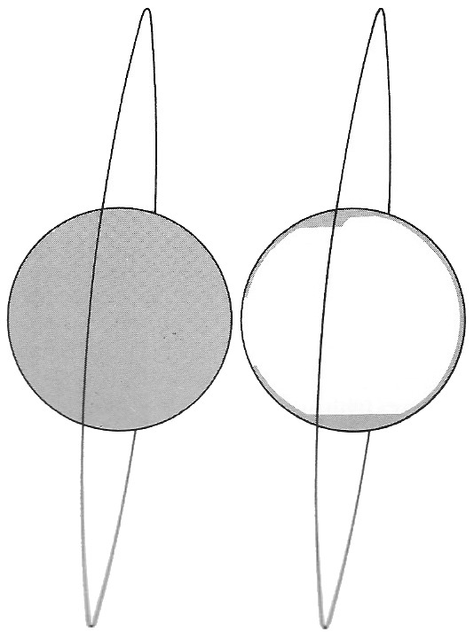 Part of Figure 1, Photographic Coverage showing spacecraft orbit and coverage on near side (left) and far side (right) of Lunar Orbiter 4.